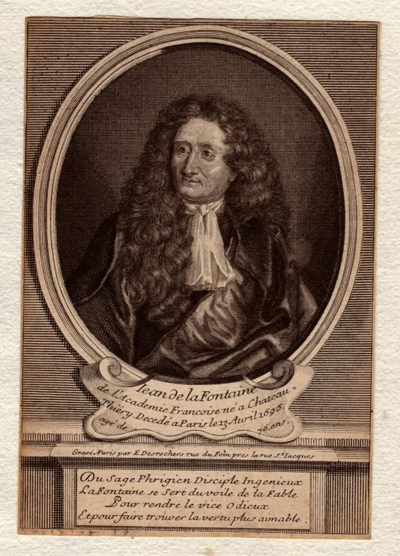 Engraving of Jean de La Fontaine